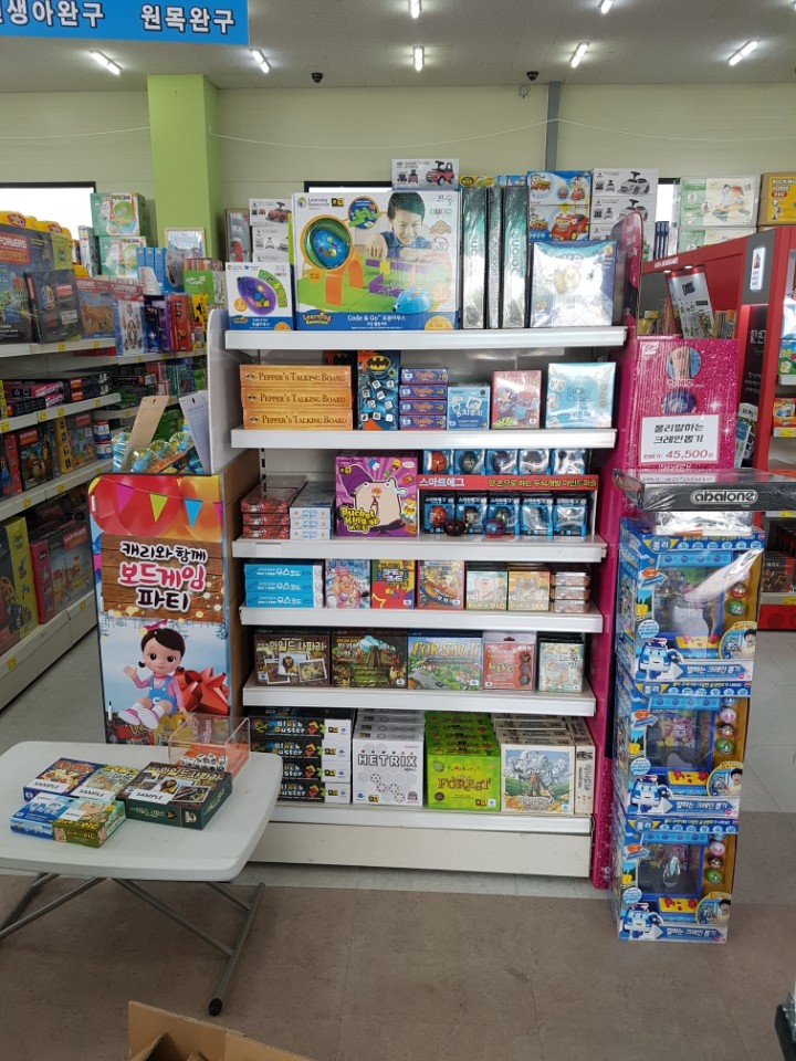 Board Game Shelves in Korea Store